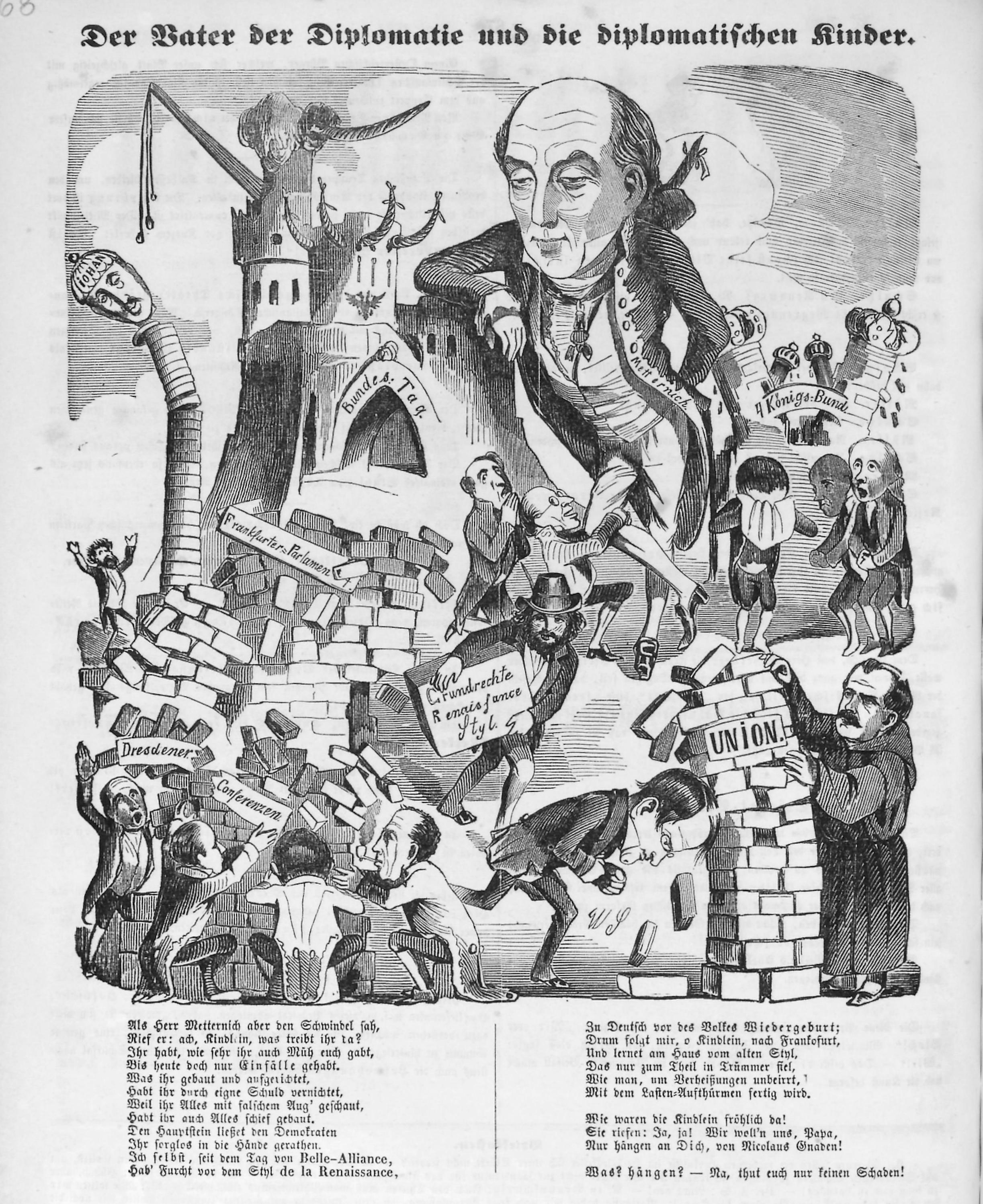 Karikatur, Kladderadatsch. Revolution, Restauration, Metternich.